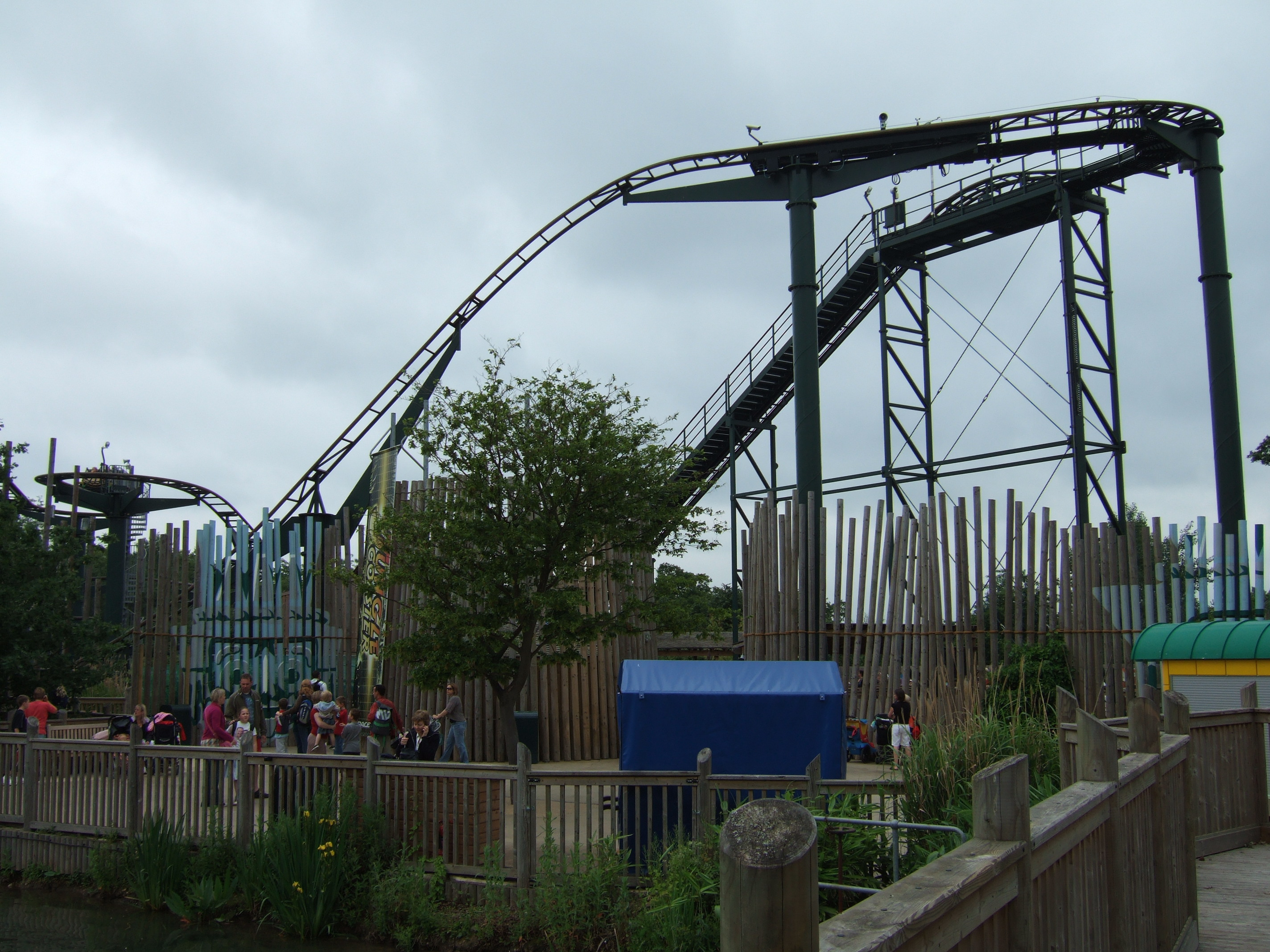 Jungle Coaster, Legoland Windsor, Berkshire, UK